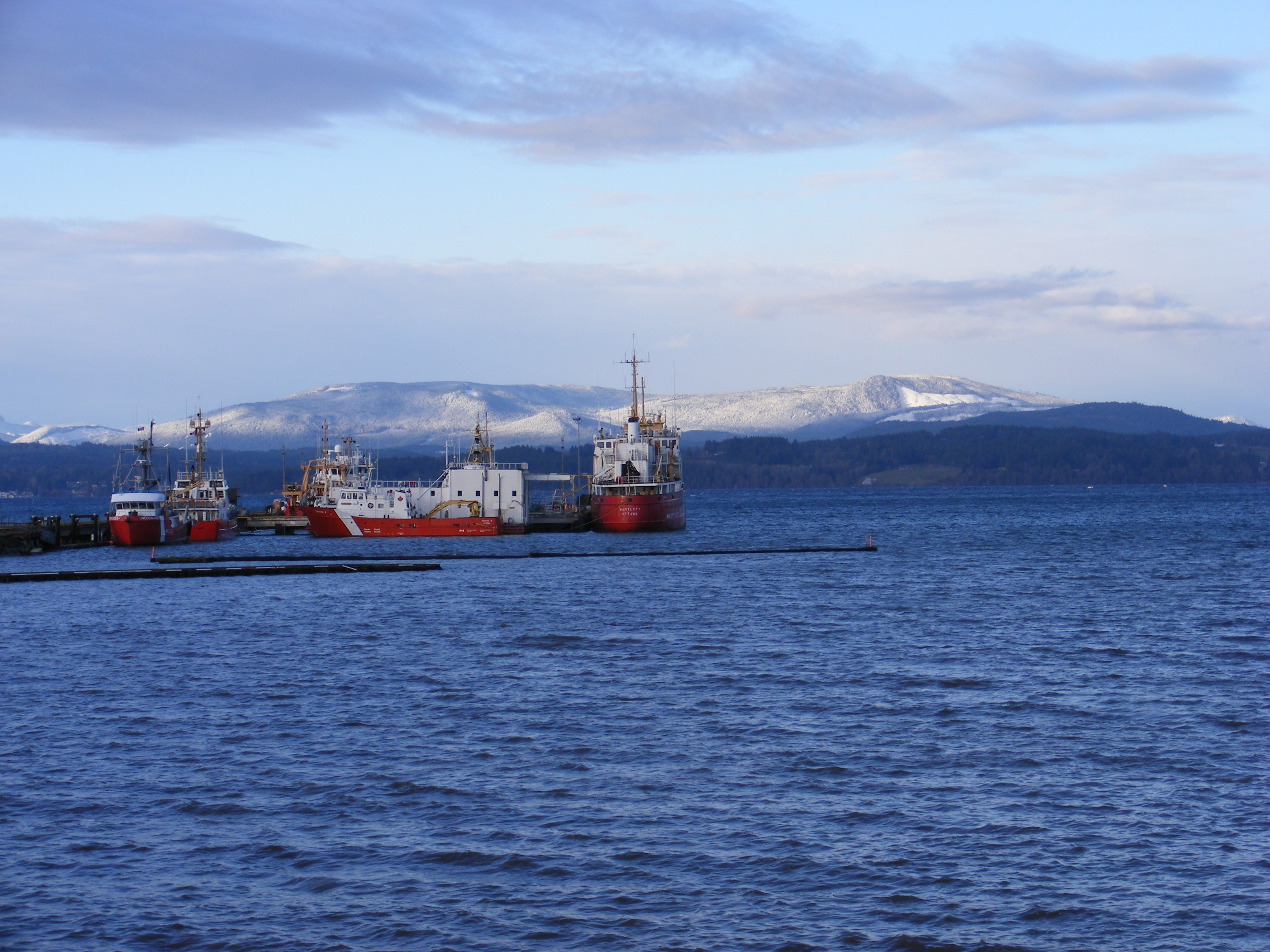 Eagle Heights and Koksilah Ridge with fresh snow cover